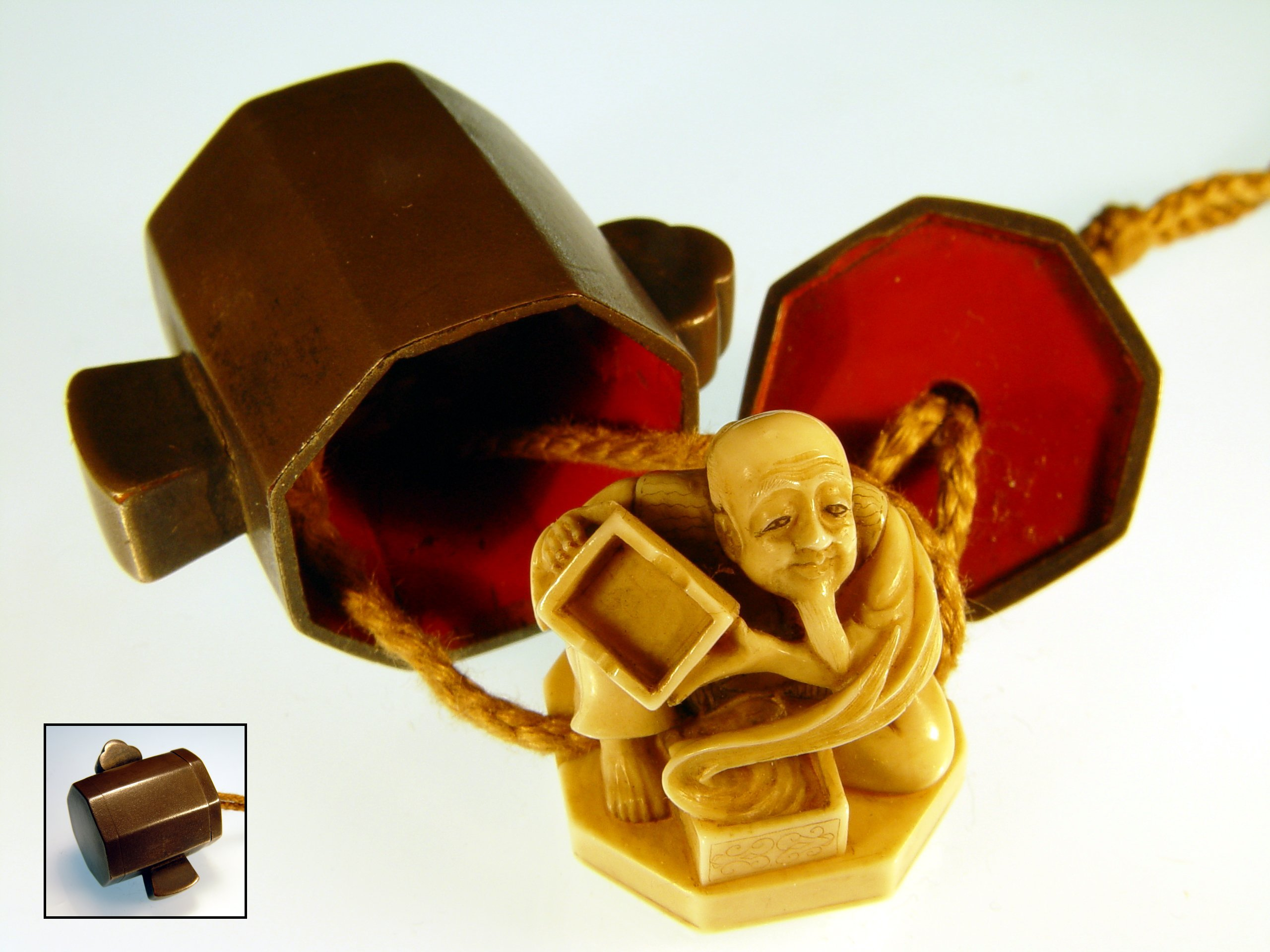 This netsuke of Daikoku's hammer opens to reveal a carving of Urashima Taro. Urashima is made of ivory, but the hammer is lacquer, so the netsuke is not heavy. A person could wear it and be unaware of its contents, as Urashima was unaware of the contents of his box. The hammer is 1.12" (28mm) across.